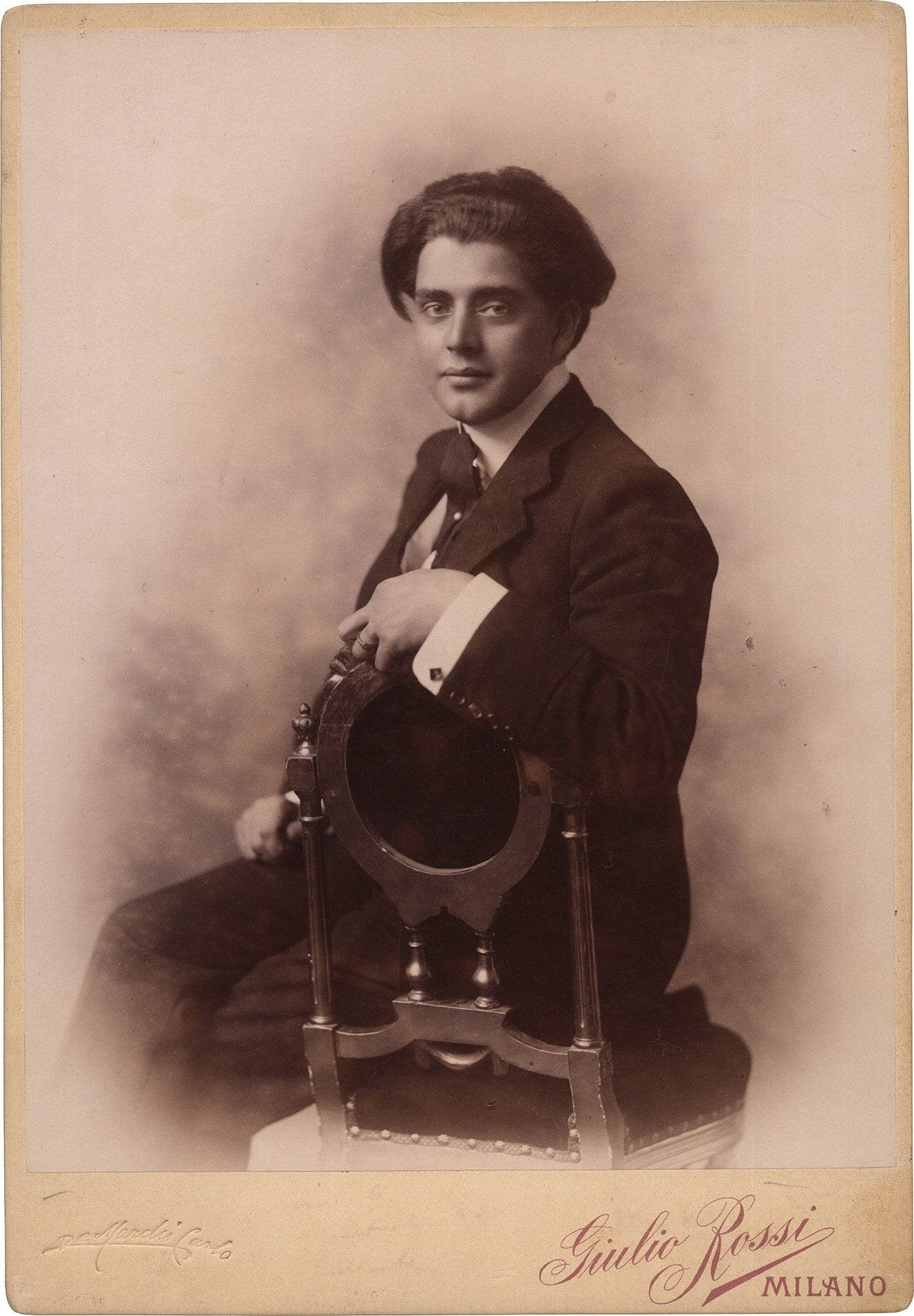 Portrait of Giuseppe Anselmi, composer (1876-1929). Photo by Carlo De Marchi, before 1929.